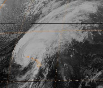 Hurricane Iwa passing near the Hawaiian Islands on November 24, 1982